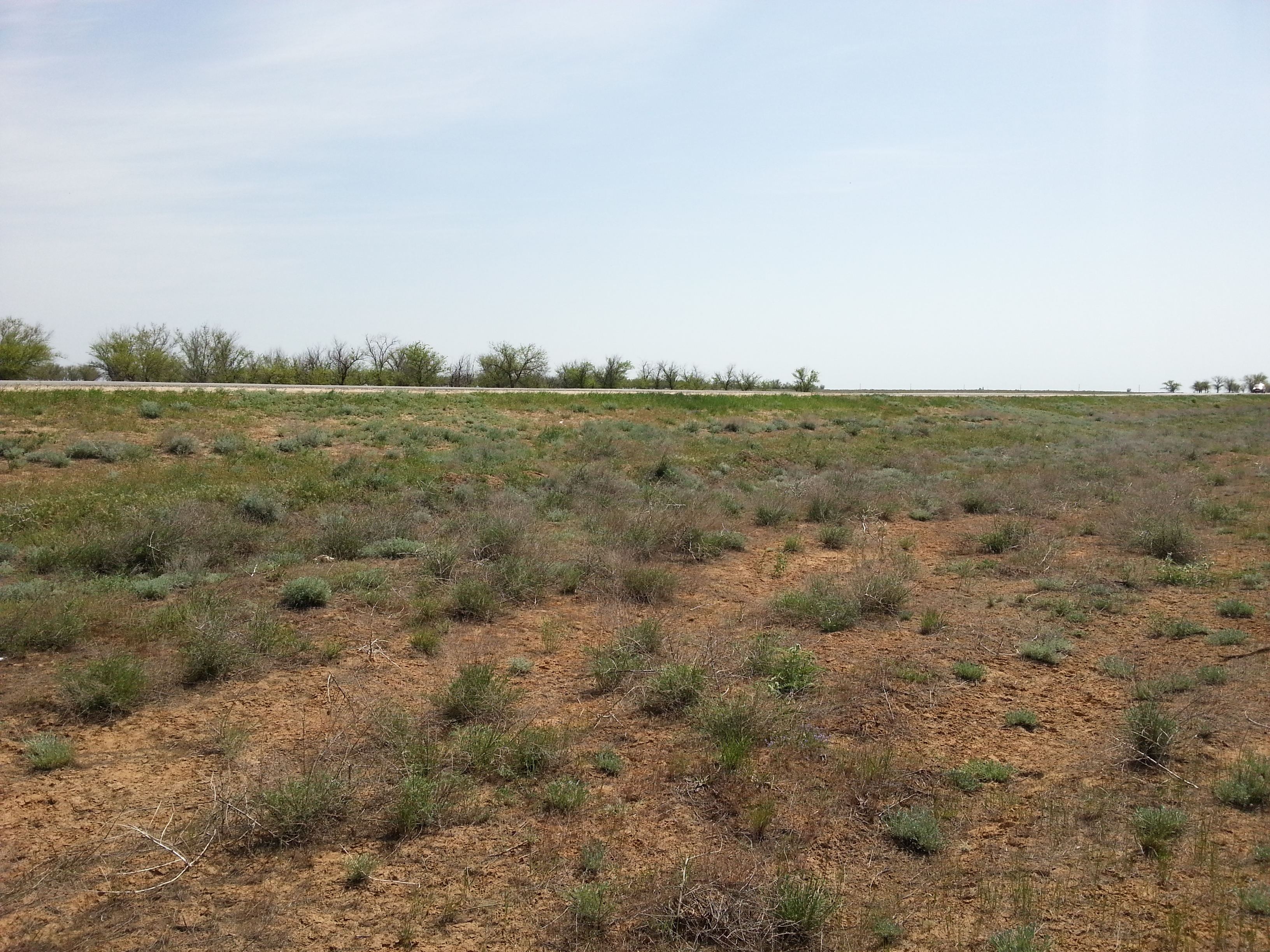 Yenotayevsky District, Astrakhan Oblast, Russia